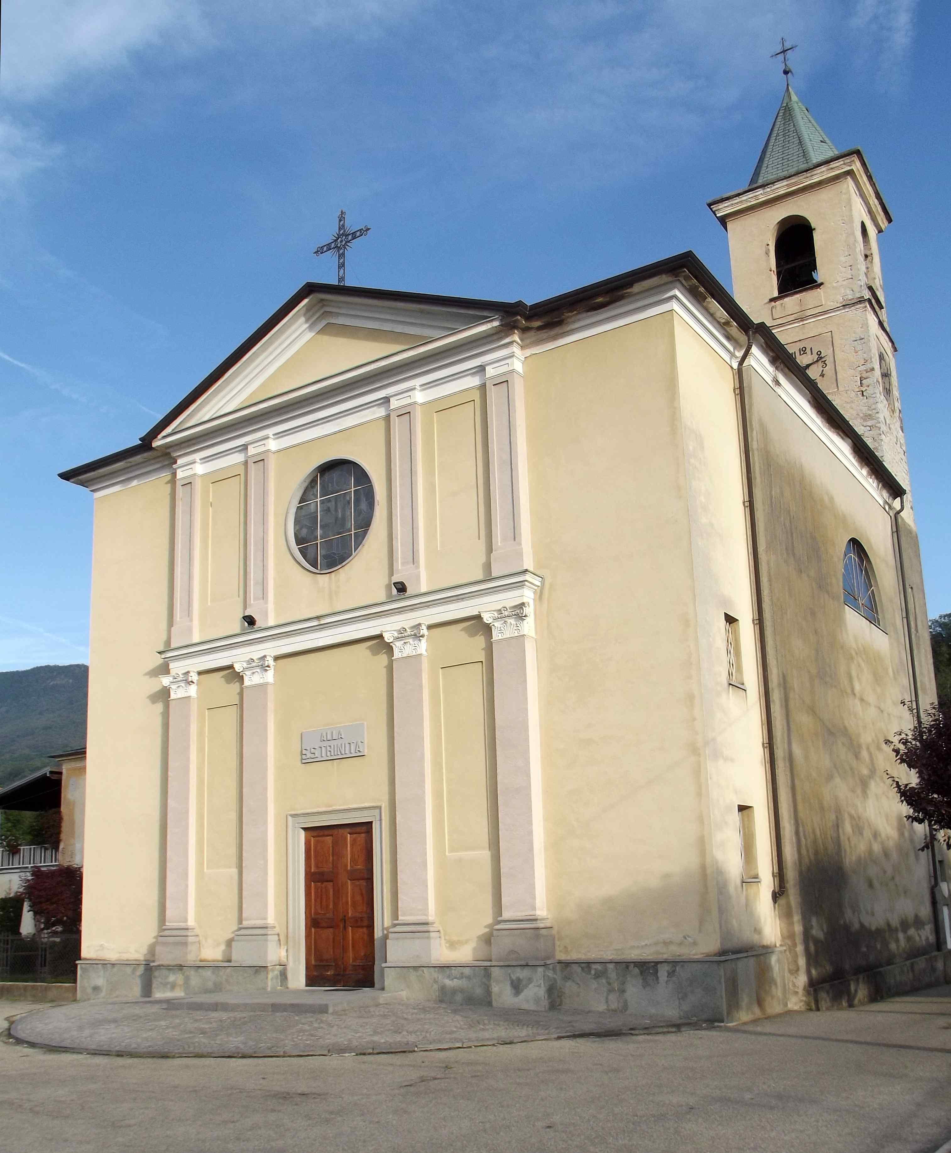 Cereje (Trivero, BI, Italy): che church